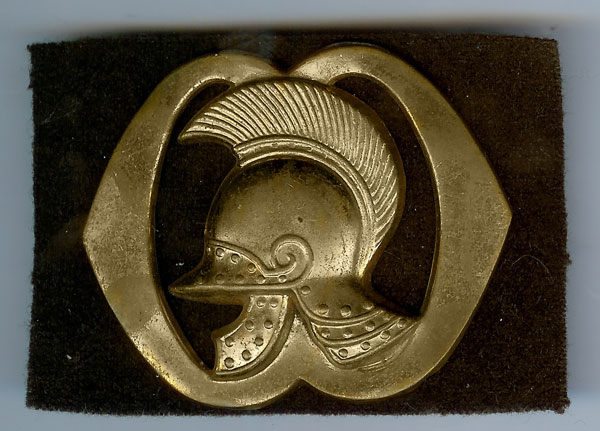 Dutch cap badge from the engineers